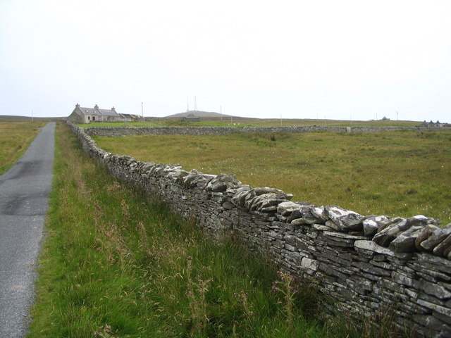 Croft with Ward of Bressay in the background on Bressay, Shetland, Scotland